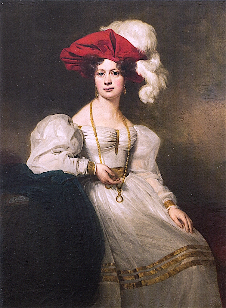 Elisabeth Markgräfin von Baden (1802-1864), née Herzogin von Württemberg